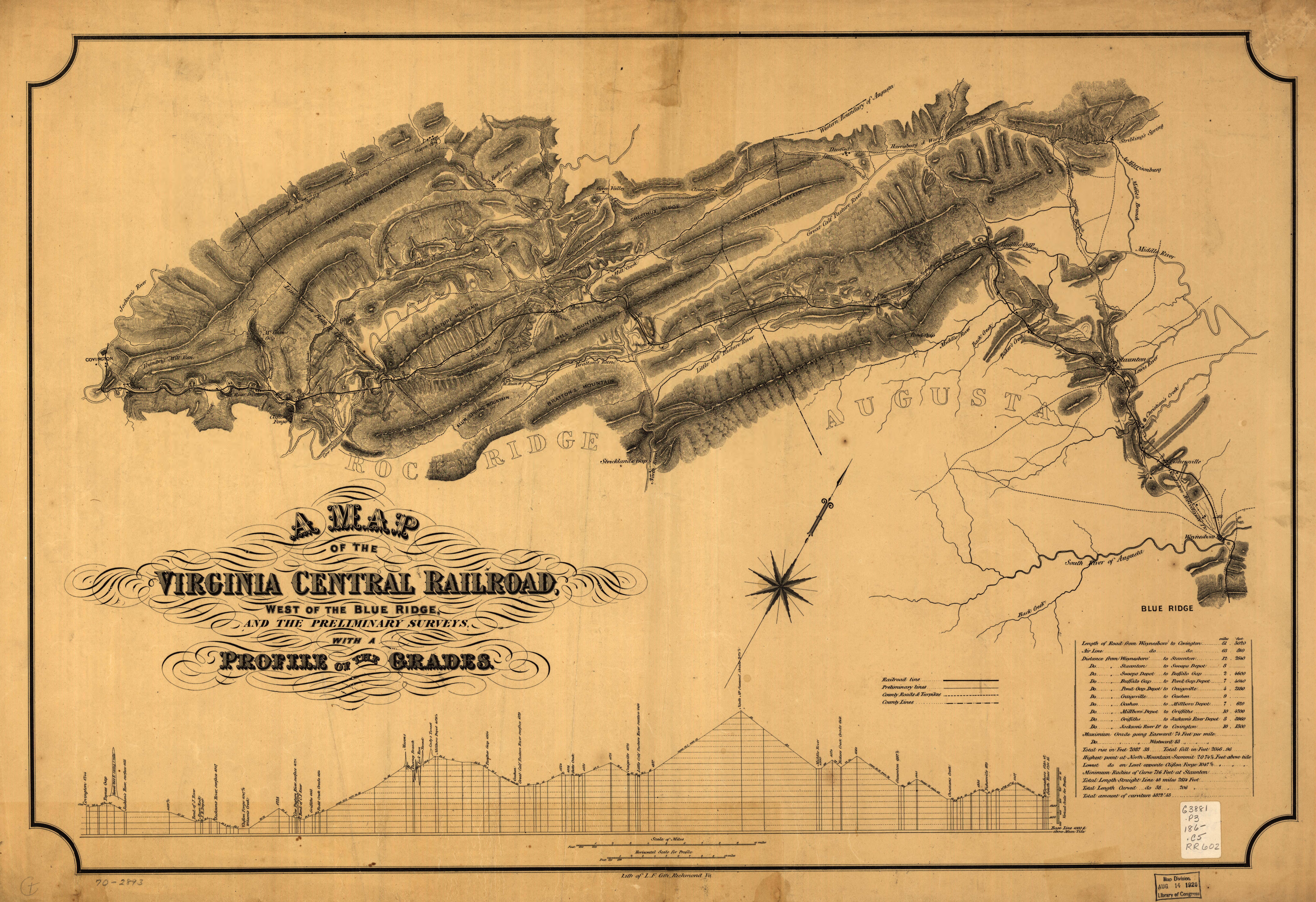 "A map of the Virginia Central Railroad, west of the Blue Ridge, and the preliminary surveys, with a profile of the grades."